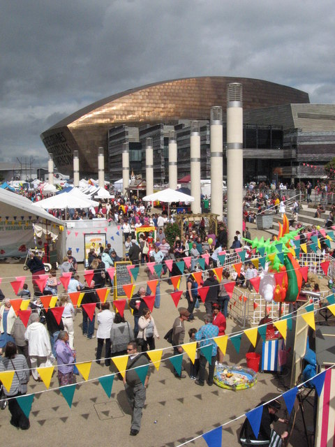 Wales Millennium Centre and Harbour Festival, Cardiff Bay. Cardiff Harbour Festival is taking place, with many food stalls (and bunting) in the Oval Basin. The large building in the background is the Wales Millennium Centre.